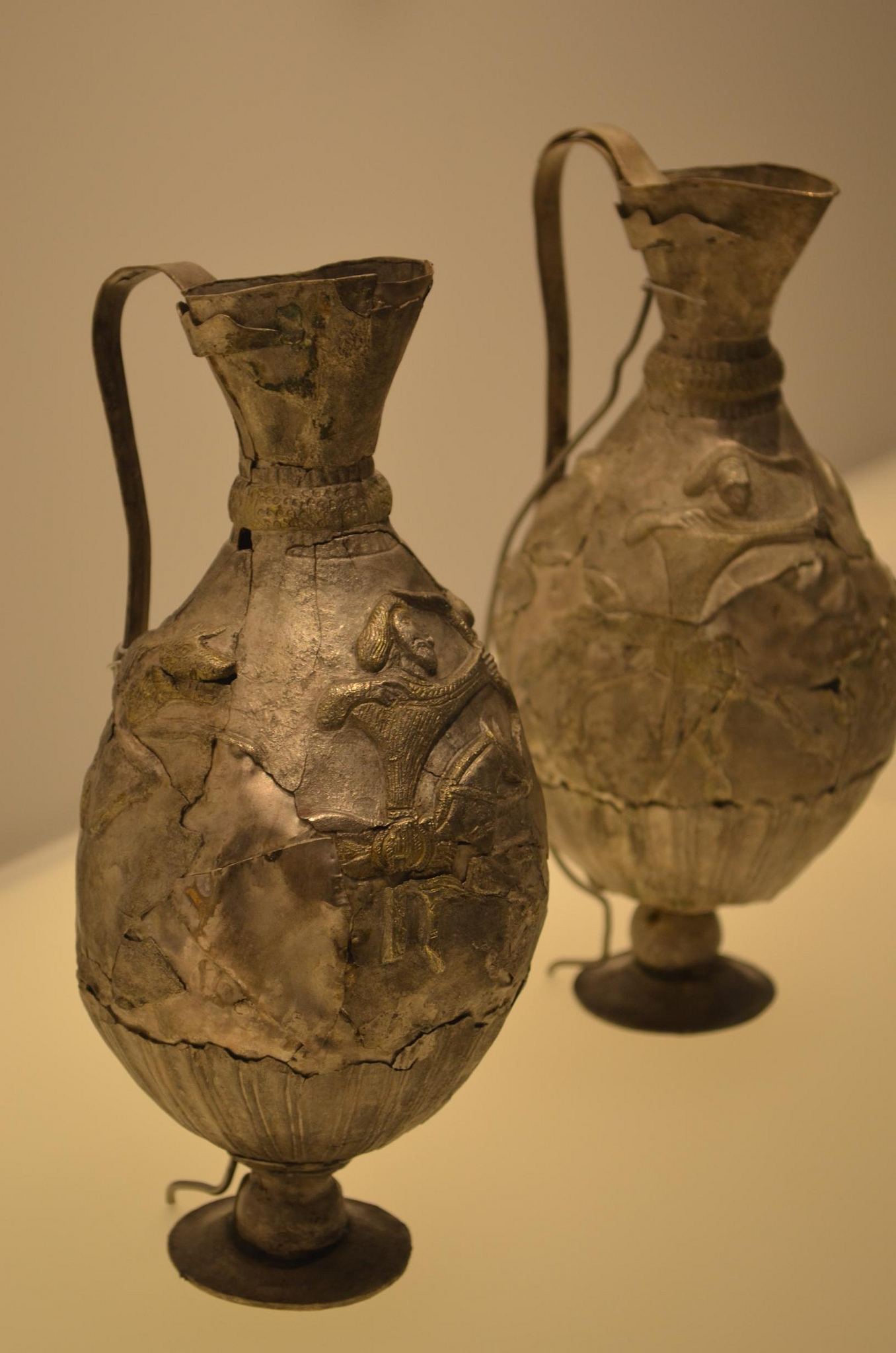 Ancient wine bottle - Georgia, Georgia wine museum